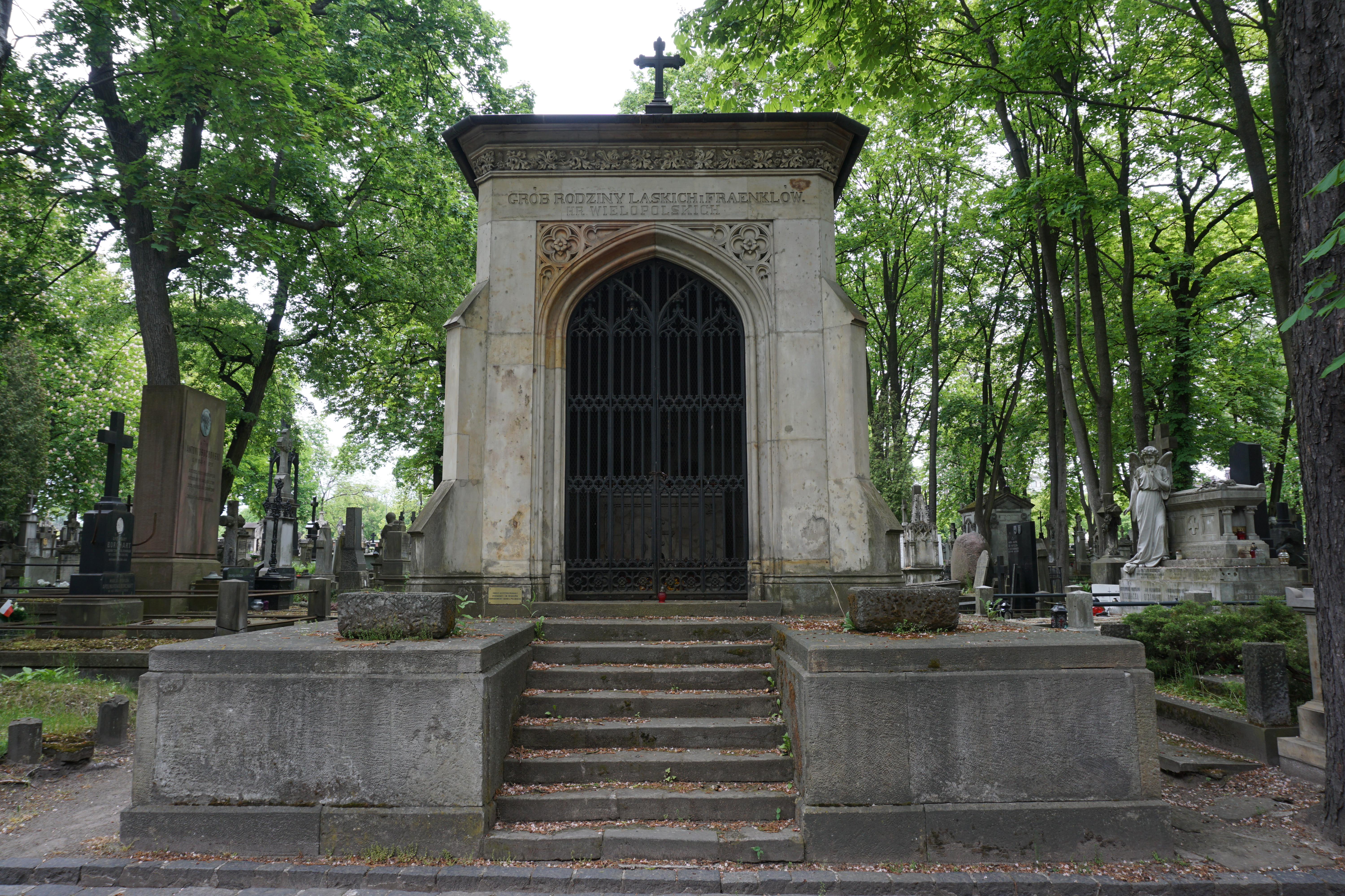 The grave of Antoni Edward Fraenkel at the Powązki Cemetery (section 20, row 3, 4, grave 26, 27, 28, 29, 30, 31)